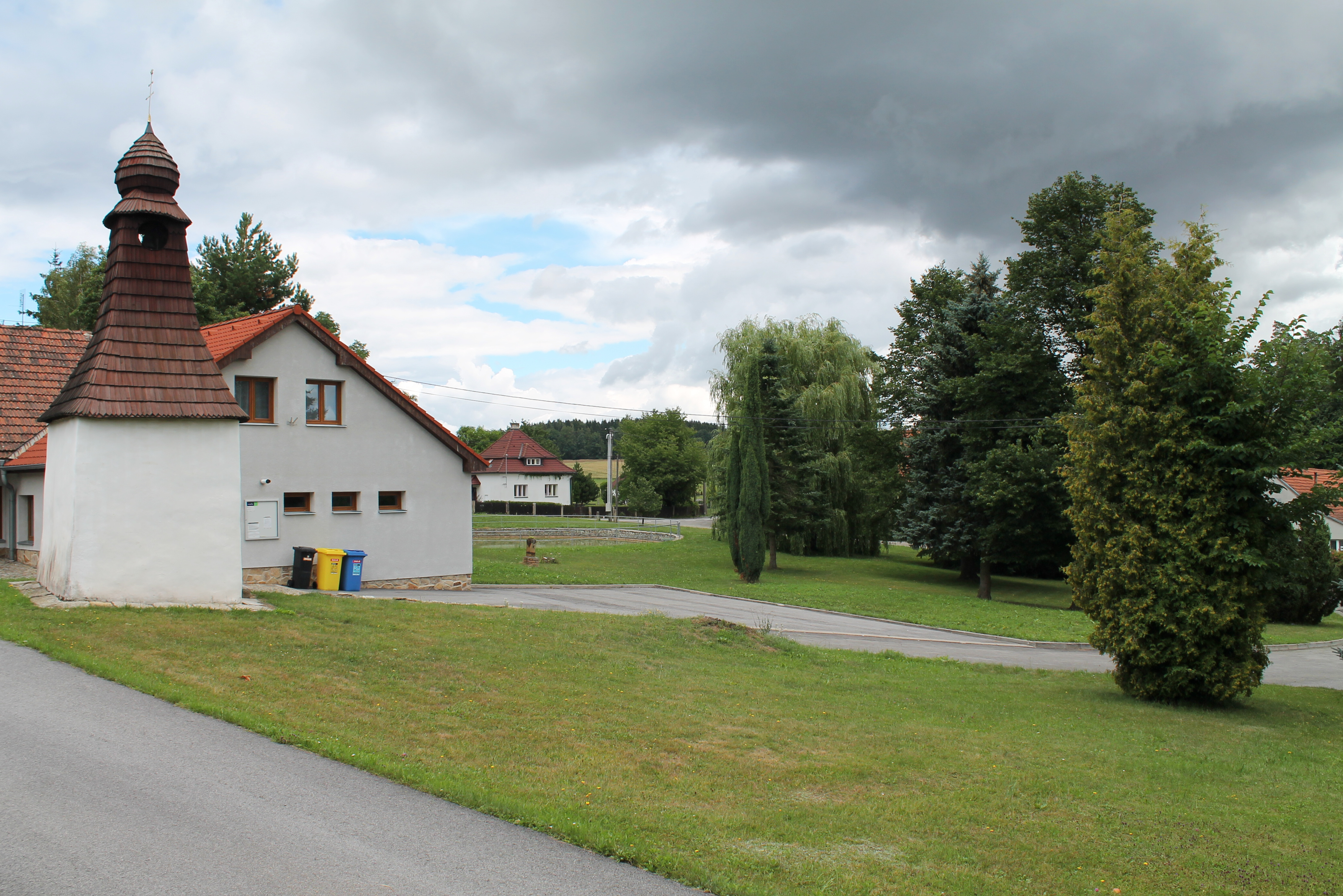 Částkovice, Hostětice, Jihlava District, Czech Republic